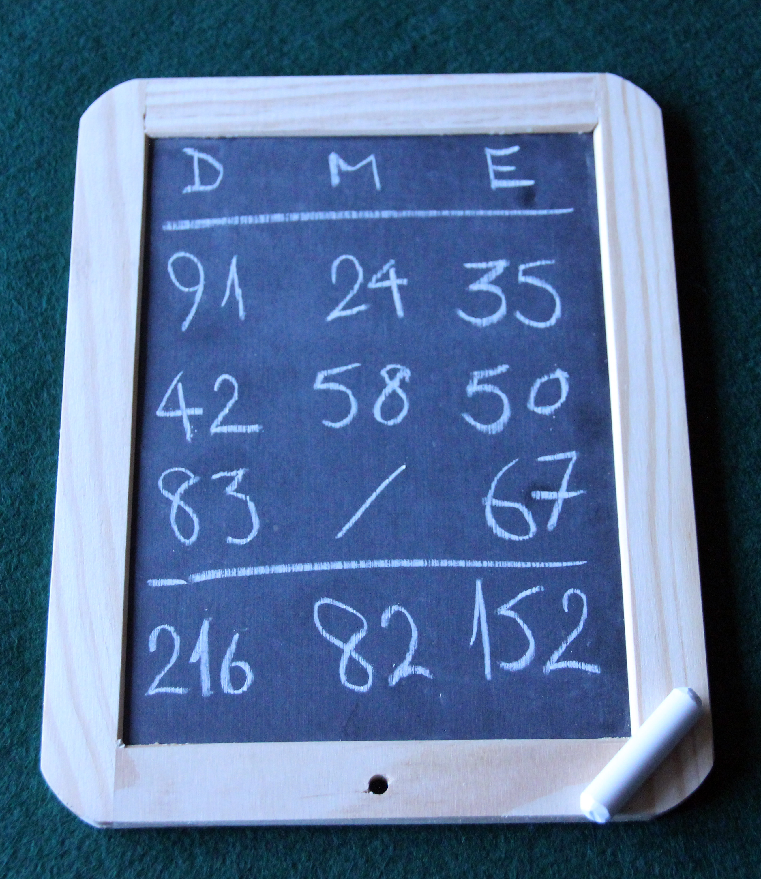 A scoring tablet used for the card game of Reunion